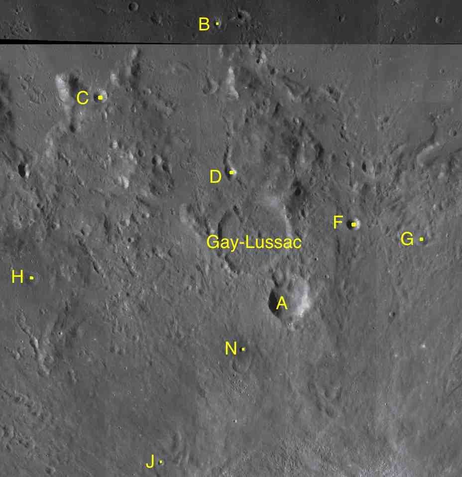 Parts of the charts LAC-40, LAC-58 used for the presentation